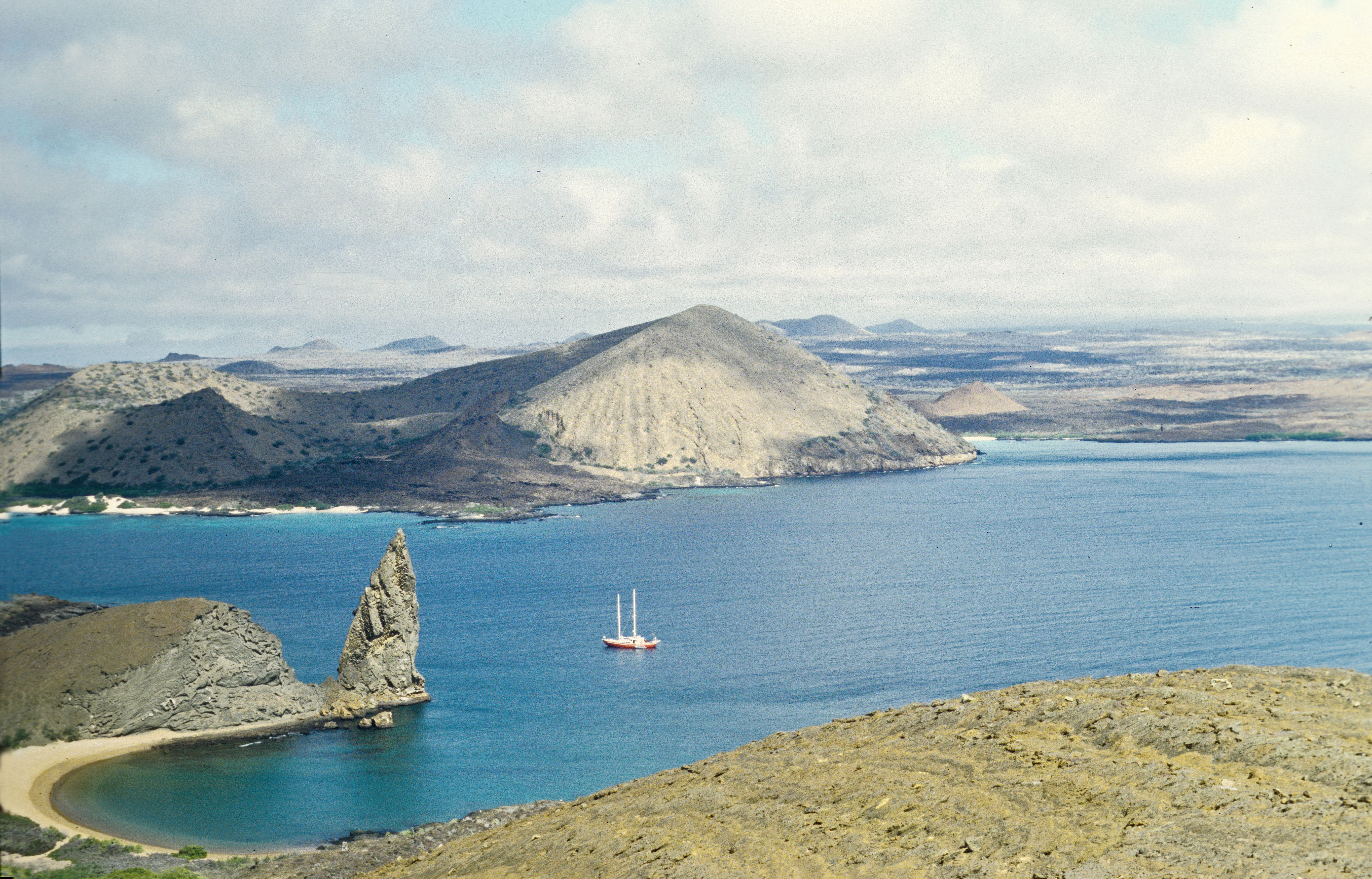 Bartolomé Island of the Galapagos Archipel, with Pinnacle Rock